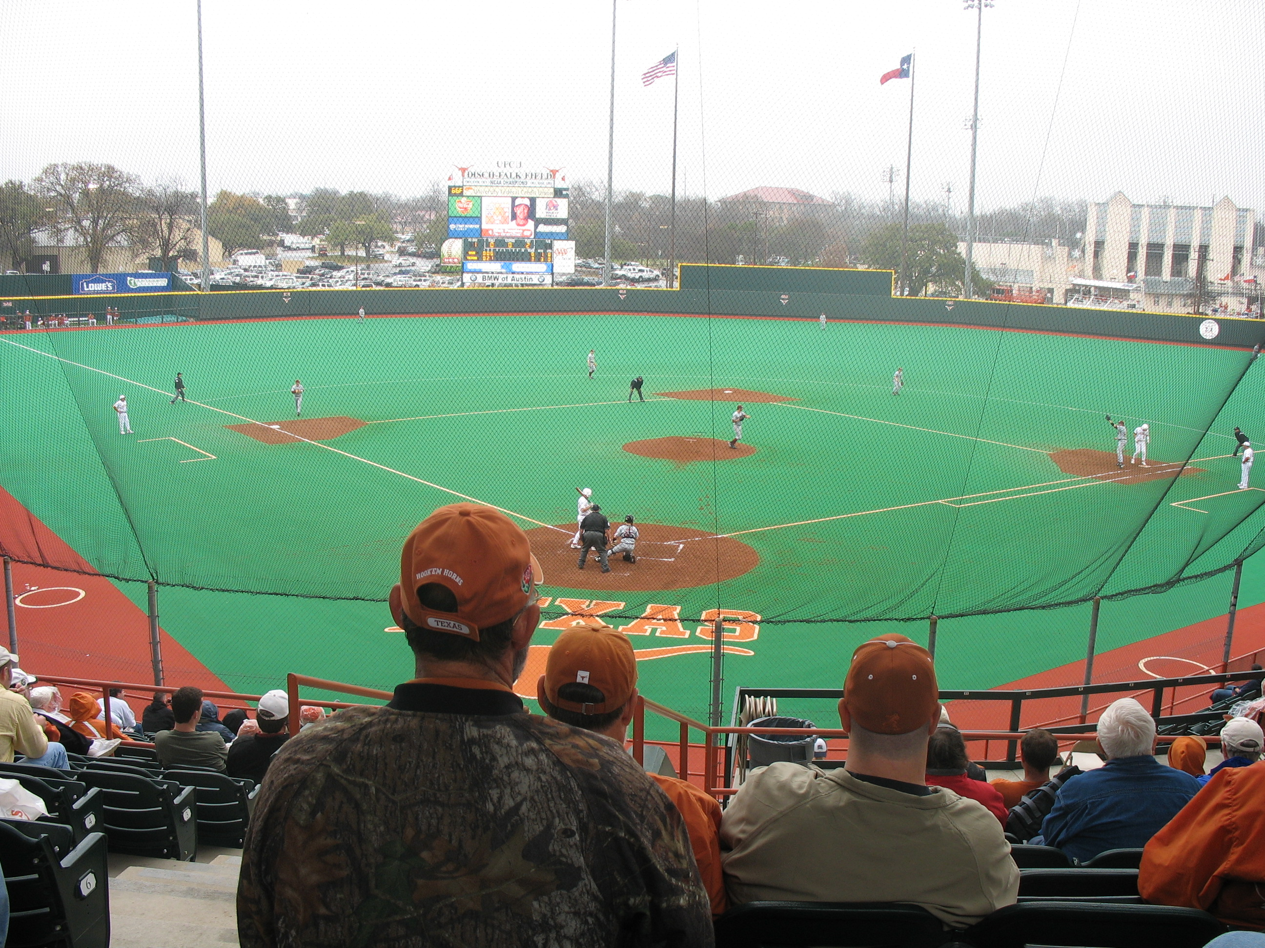 Texas Baseball game vs Washington State during the 2006-07 season at at UFCU Disch-Falk Field